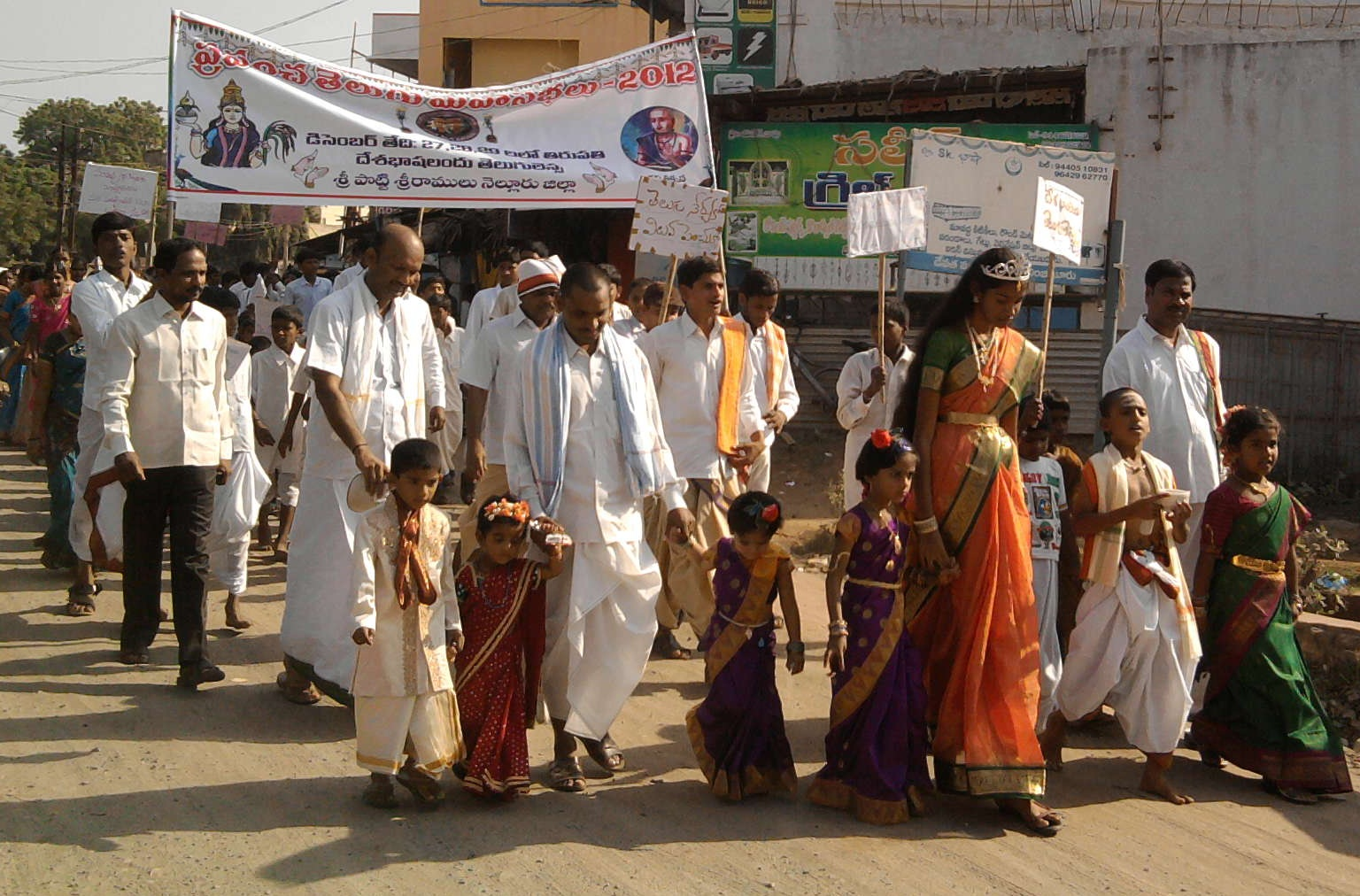 Telugu People Dresses at Vinjamoor, Nellore (dt), A.P. India.